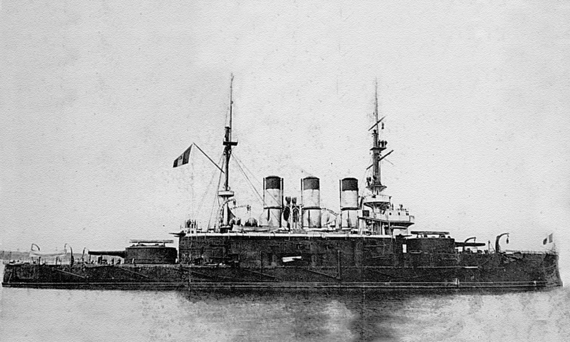 Imperial Russian battleship Kniaz' Potiomkin-Tavricheskii in Constanţa, 25 June 1905.